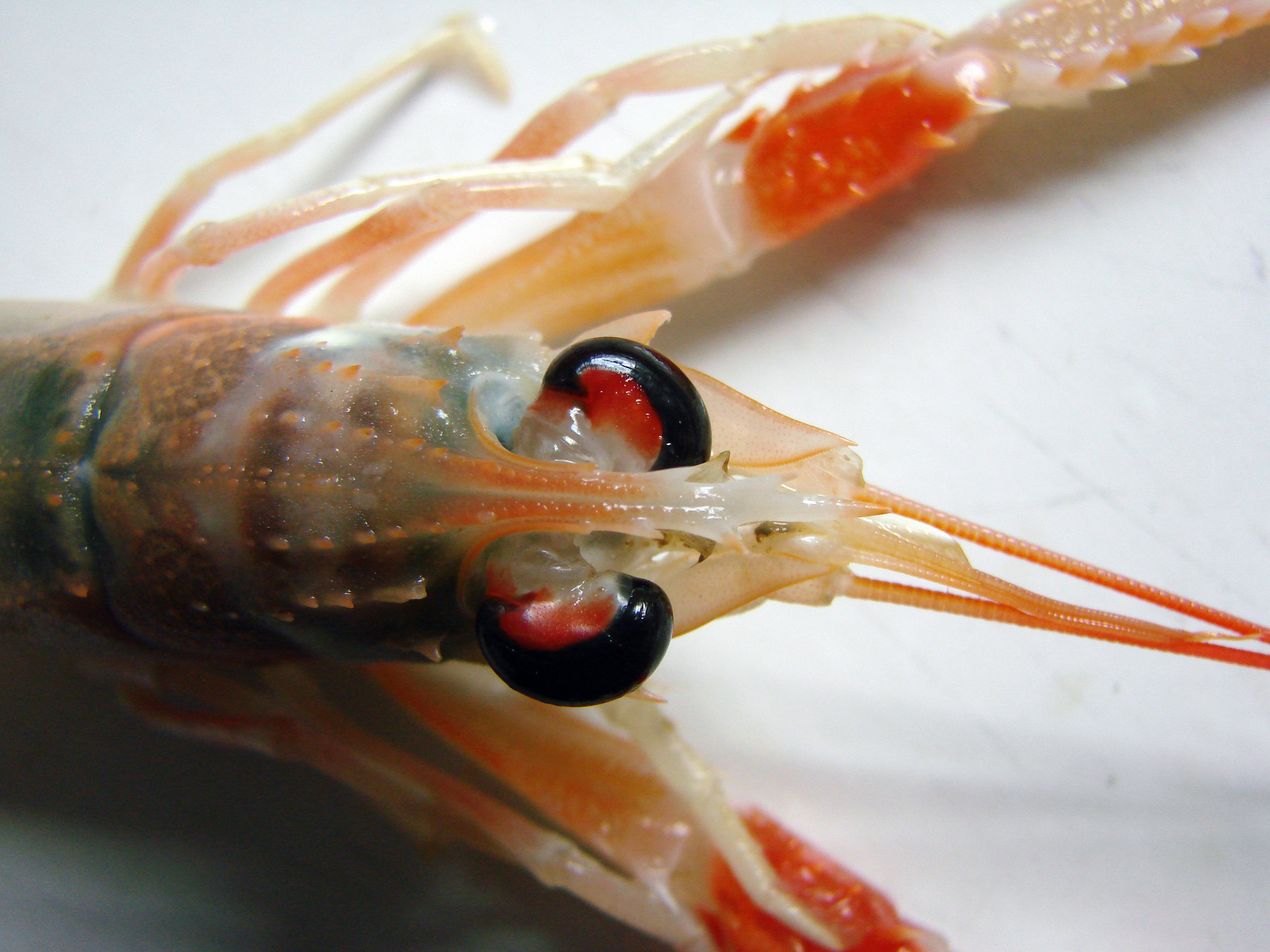 Head of a living Norway lobster (Nephrops norvegicus).